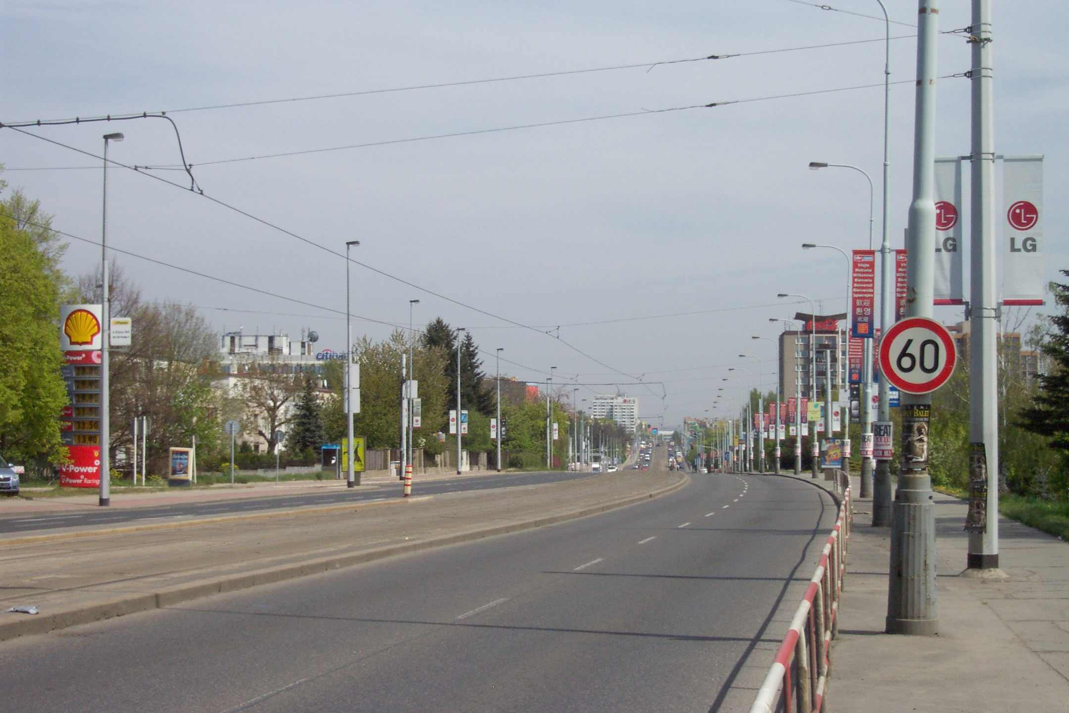 Prague, Vokovice, Evropská avenue